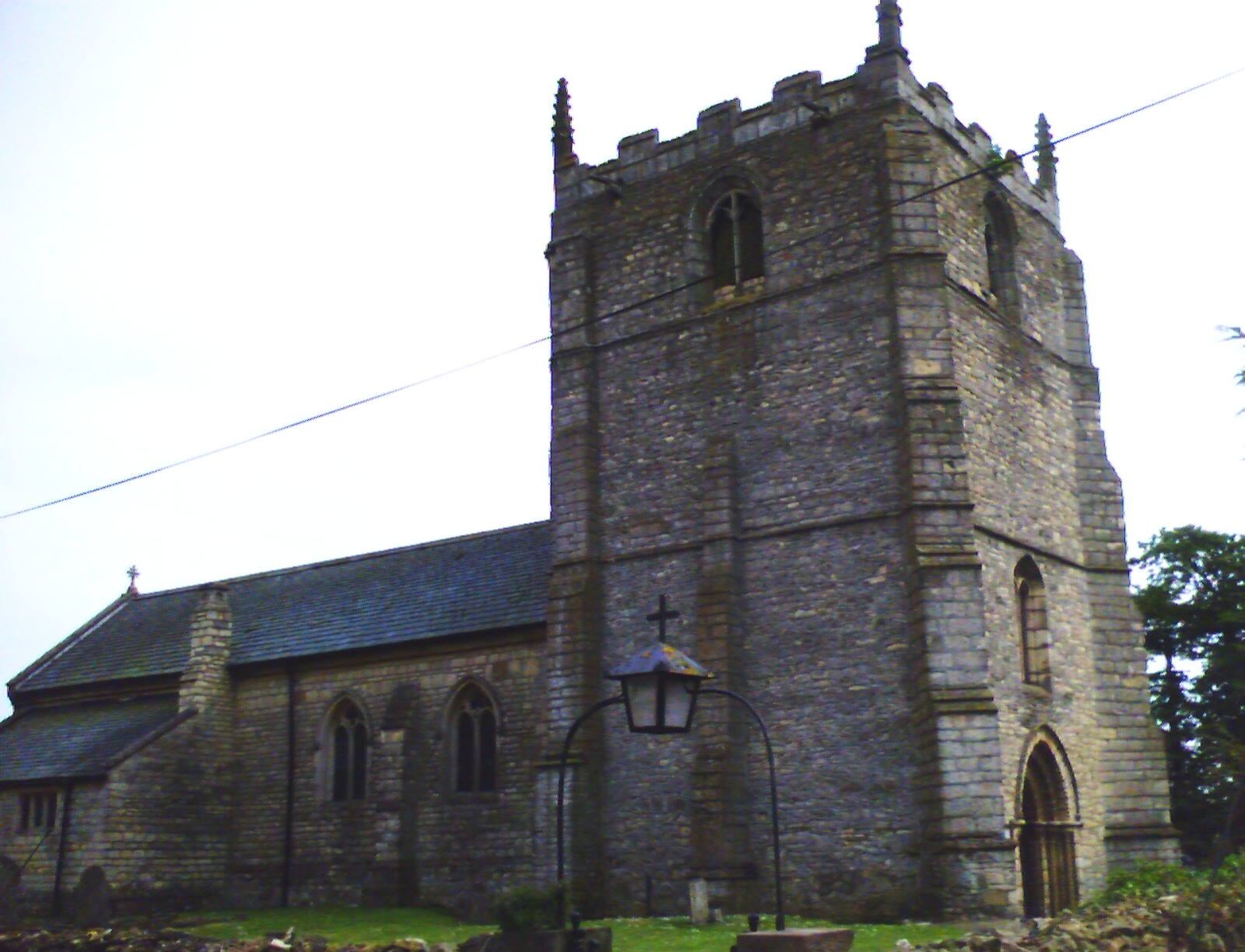 Church of Saint Radegund, Grayingham. Photo by E Asterion u talking to me?